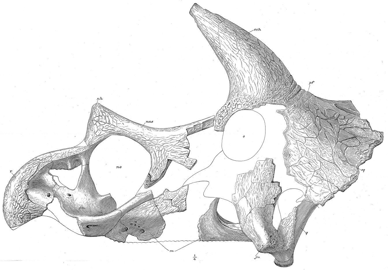 Type specimen of the type species of Triceratops, T. horridus (YPM 1820, Yale University Museum).